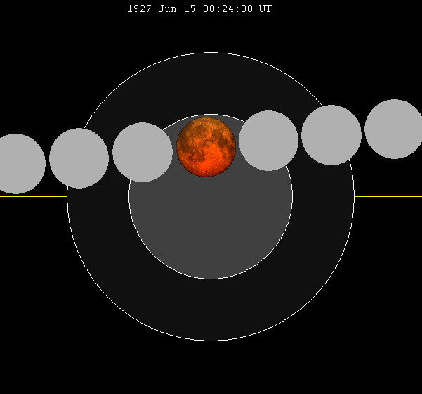 =lunar eclipse chart of moon's path through the earth's shadow. thumb